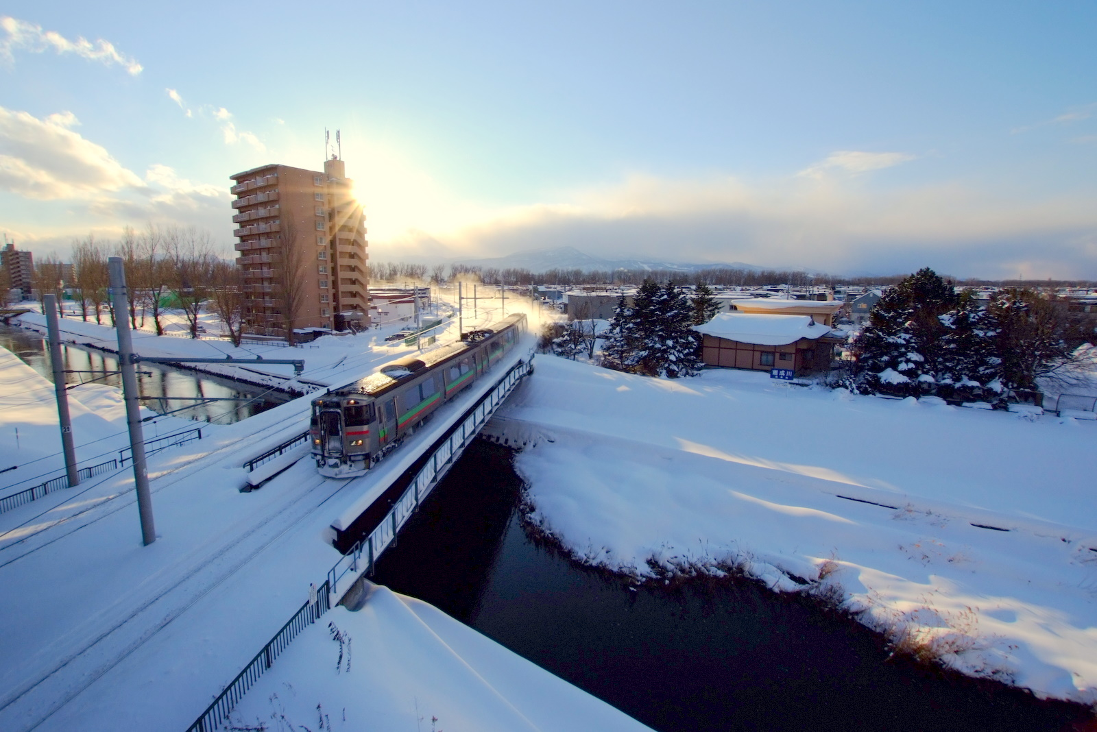 JR北海道 学園都市線 (Hokkaido Railway company)